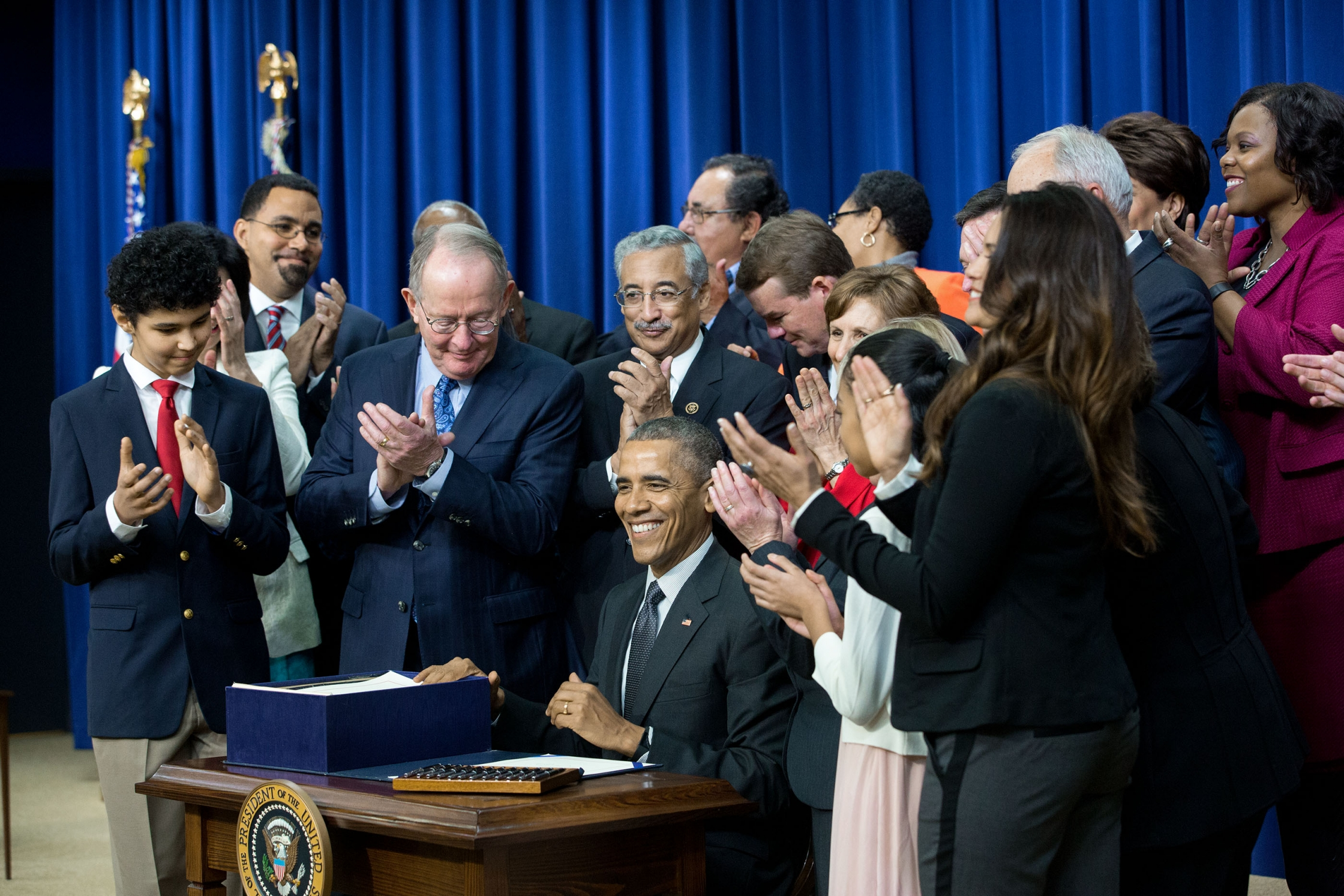 "President Barack Obama signs S. 1177, Every Student Succeeds Act (ESSA), during a bill a signing ceremony in the Eisenhower Executive Office Building South Court Auditorium, Dec. 10, 2015"